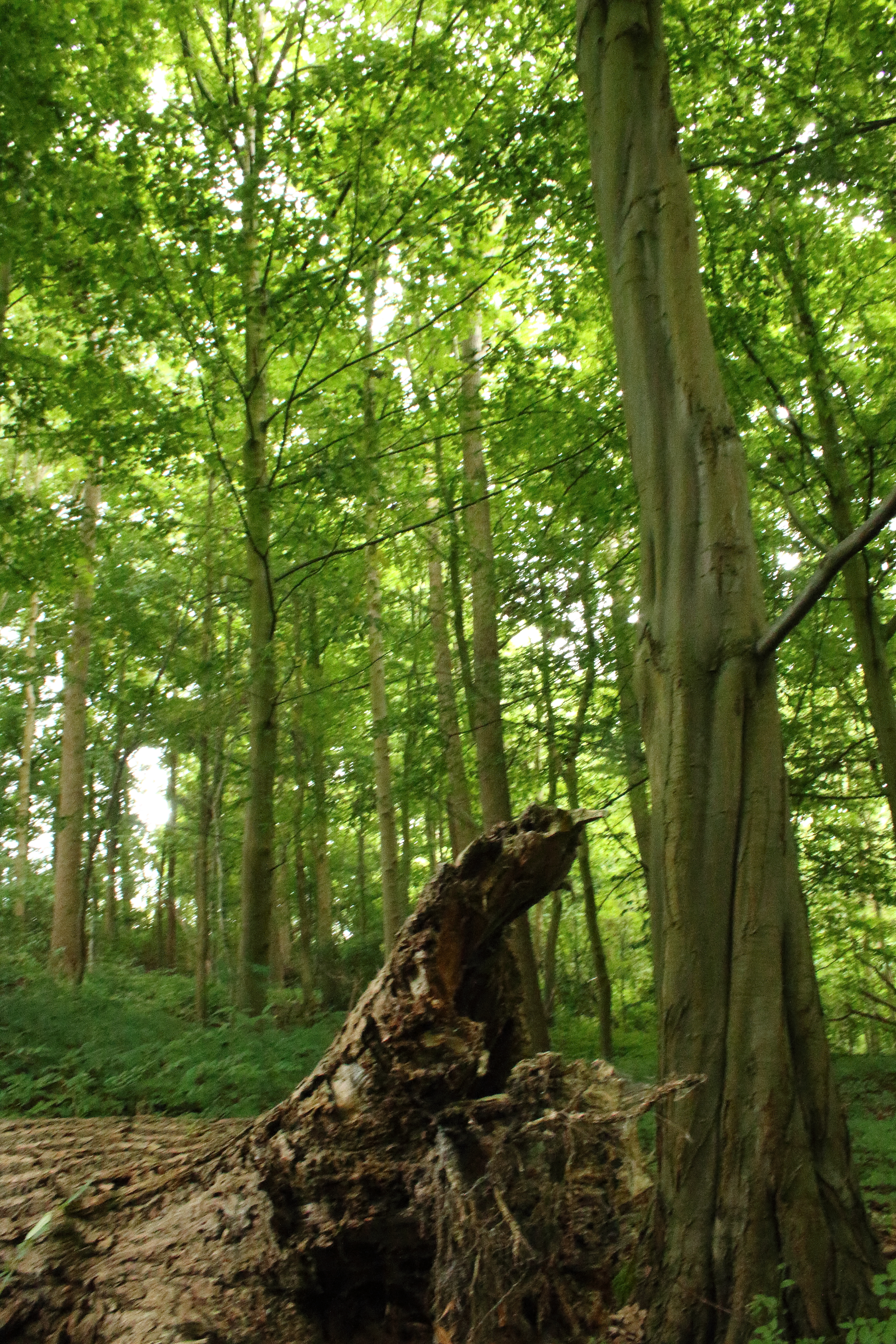 Steenbergse bossen nature reserve, Zottegem, Flanders, Belgium